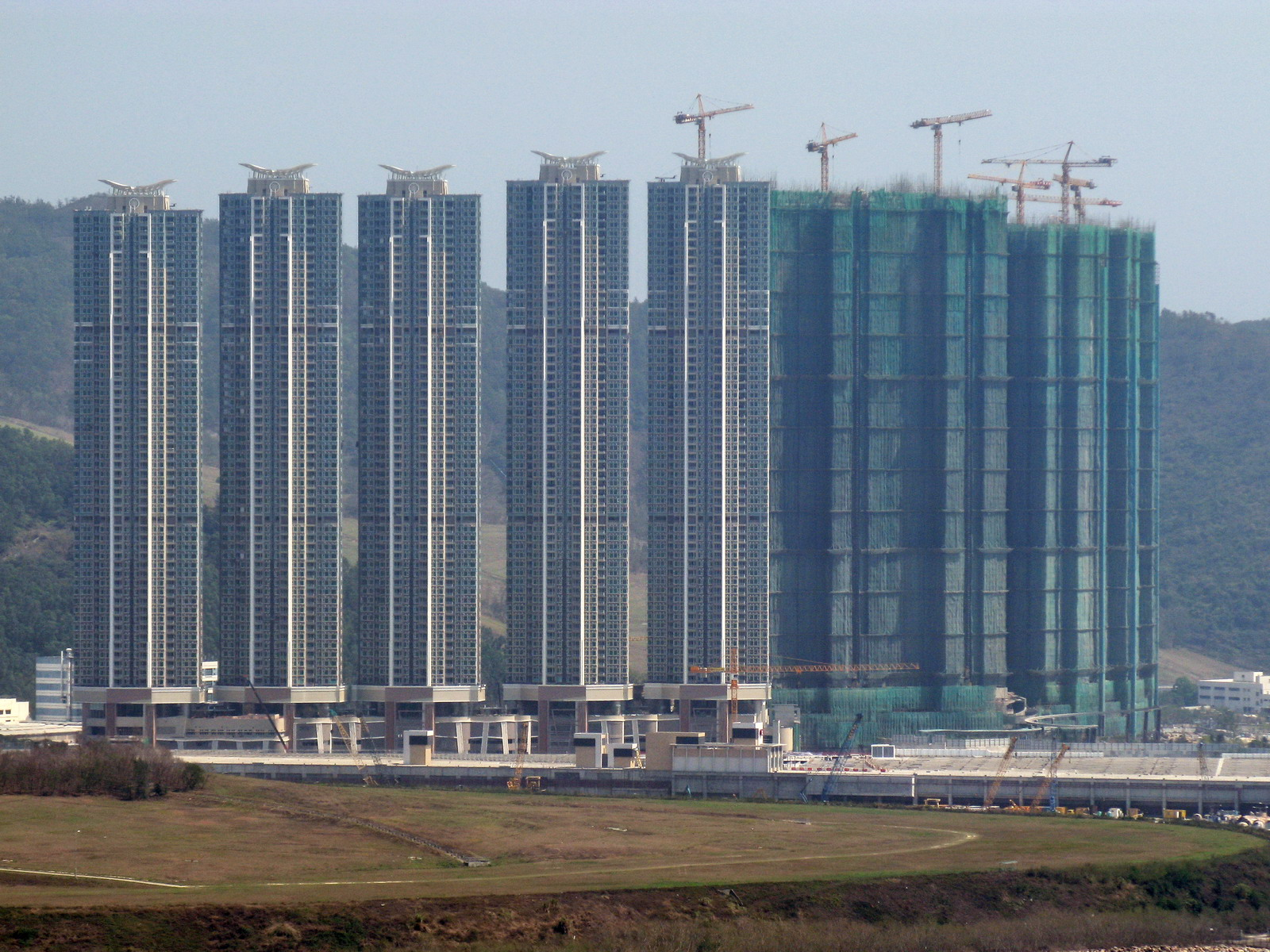 LOHAS Park Phase 1 & 2 (2009/03)